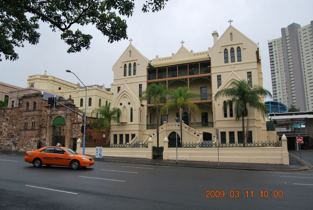 St Ann's, All Hallows Convent and School, from West (2009)